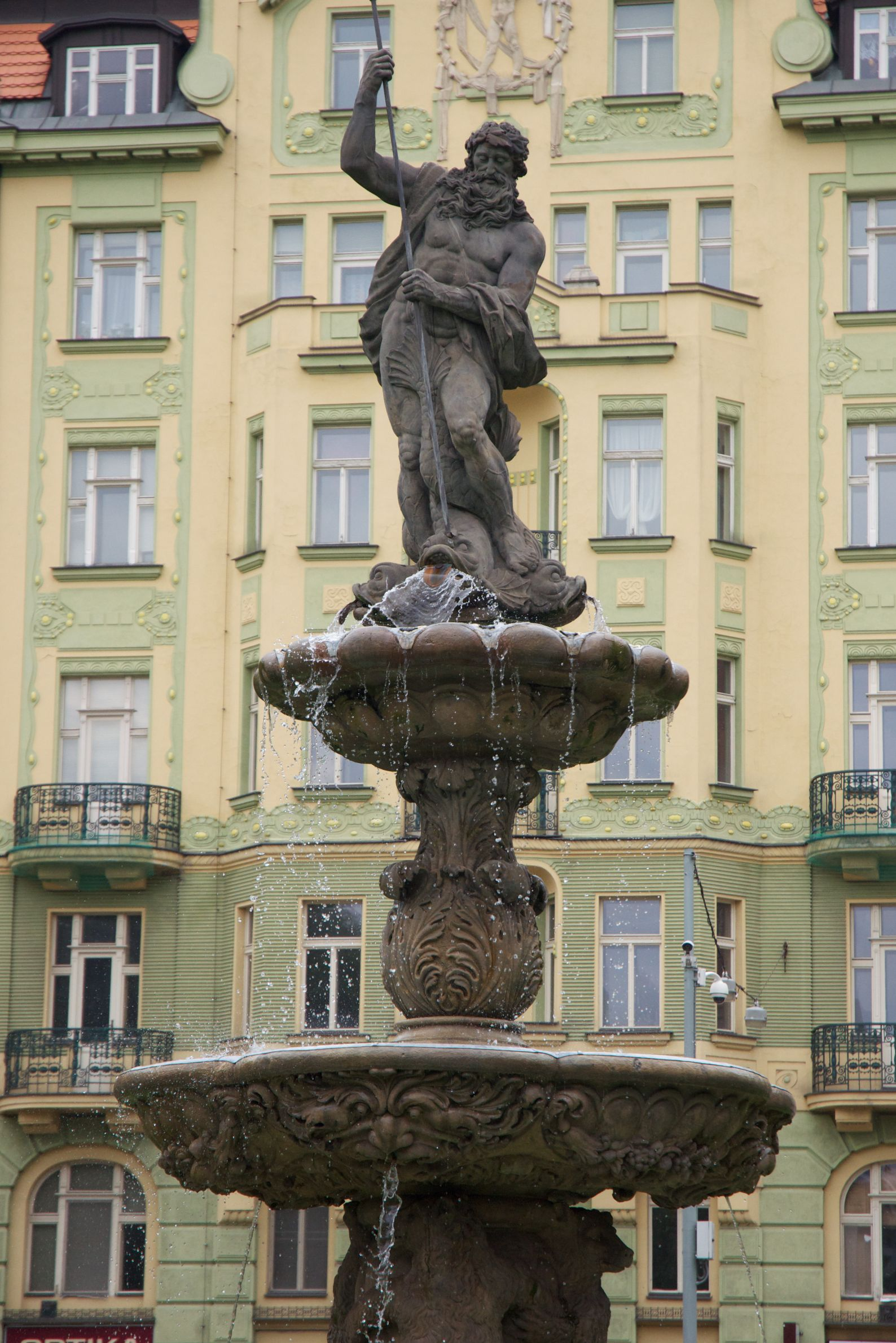 Fountain on 14. října square, Prague